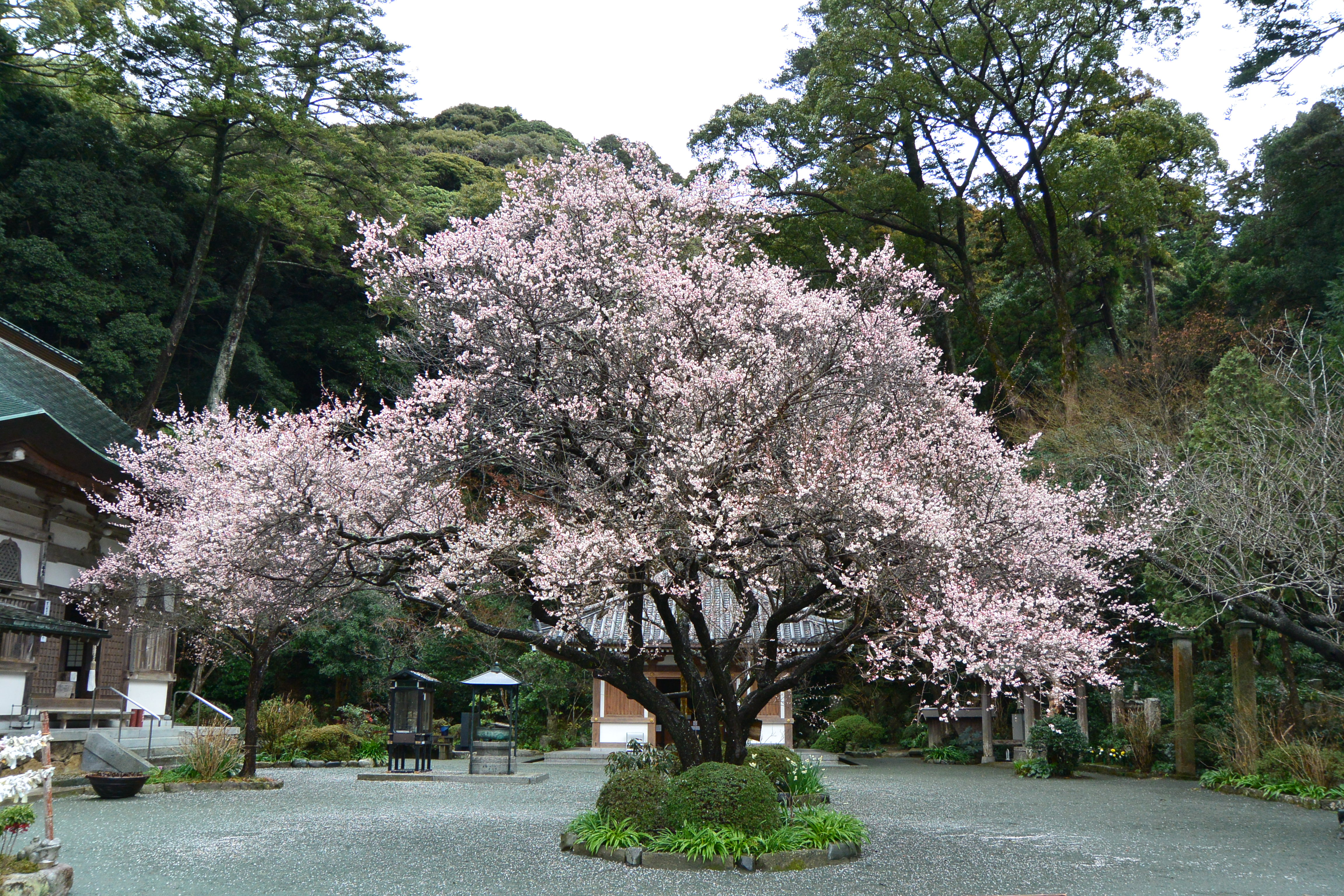 Chinese plum tree at Chinkokuji-Tempke Kyusyu Japan